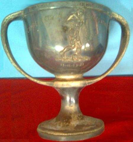 League Cup Ceará 1921